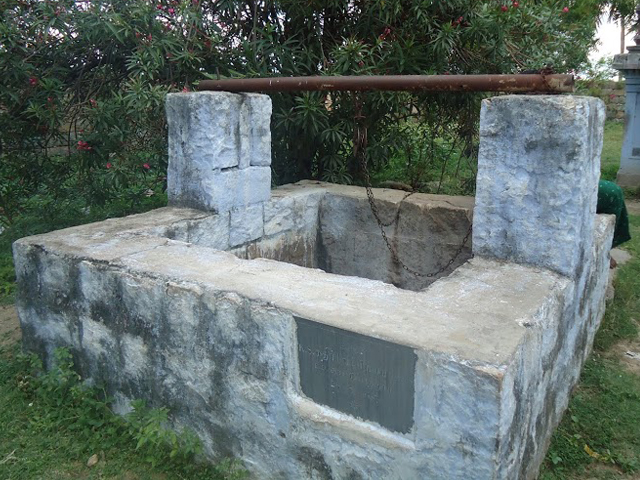 Trichy Kattuputhur mathurai kaaiyamman temple teeratham